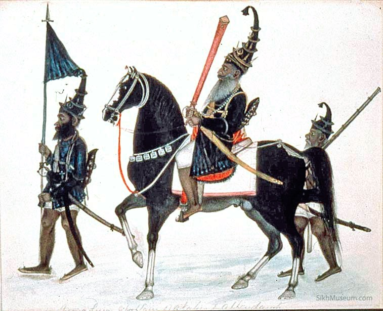 "Nihang Chieftain and Attendants" ca. 1885